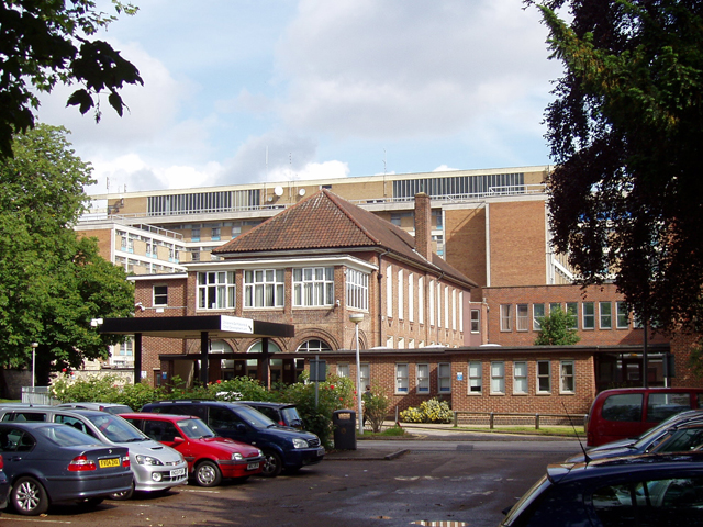 Peterborough District Hospital One of the entrances to the hospital, as viewed from Thorpe Road. The main high-rise block can be seen behind. nb. a new hospital, to replace this one, is currently being built elsewhere on a greenfield site. It is due to open in late 2010.